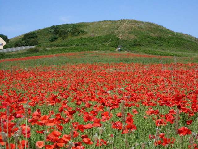 Beeston Bump with the poppies in full flower. The Bump is an isolated hill 63 metres high at grid reference TG167433 about 1 km north of the centre of Beeston Regis, Norfolk. It is about 1 km east of Sheringham. This view is taken from southeast of the bump.